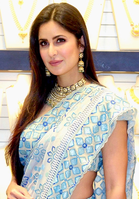 Katrina Kaif graces the opening of Kalyan Jewellers’ new showroom in Delhi, 2018